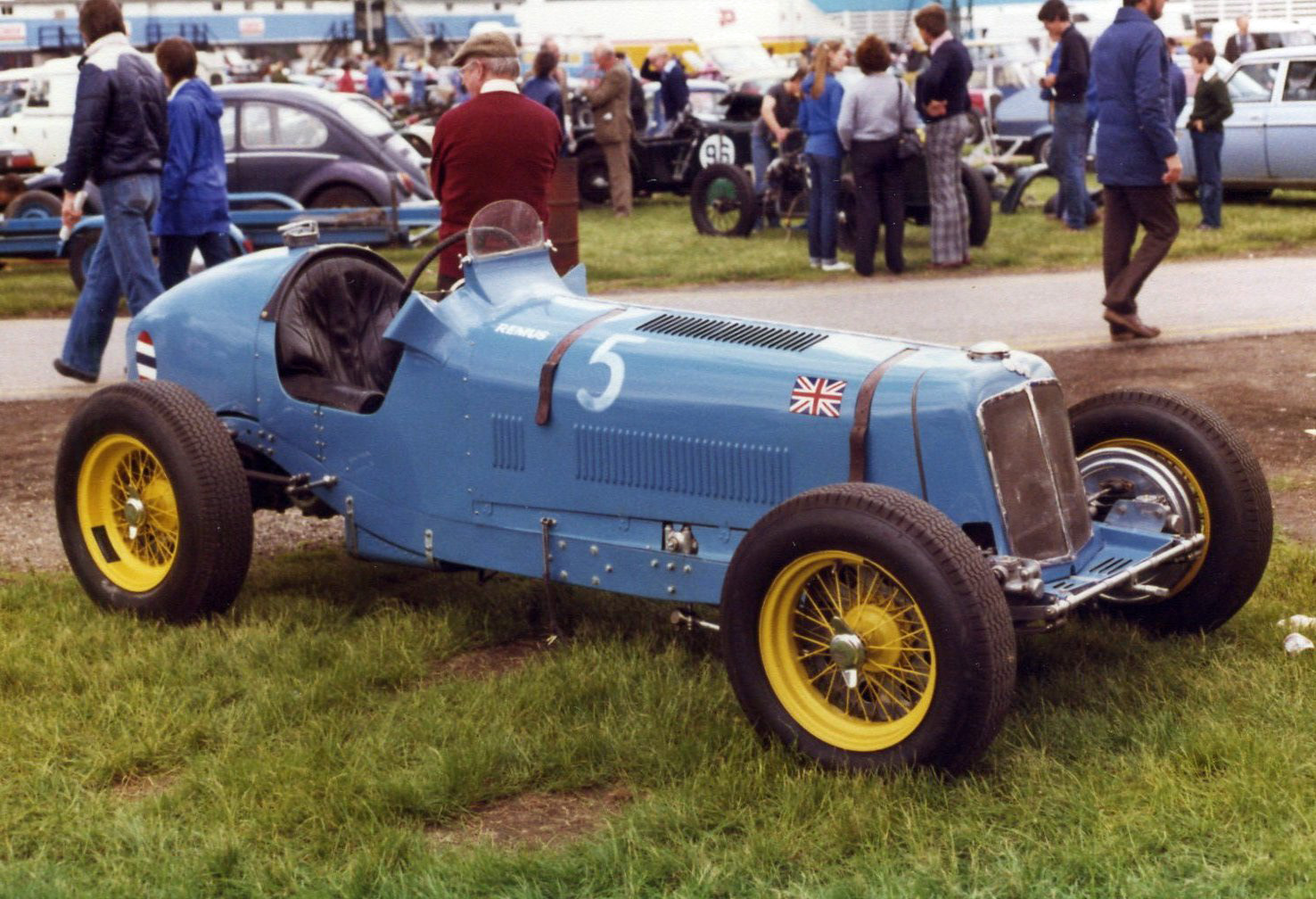 Prince Bira of Siam's English Racing Automobiles R5B racing car, "Remus". Pictured in Bira's racing colour, "Bira blue", with the yellow wheels of the Siamese (later Thai) racing scheme. Photo appears to have been taken at a historic race meeting or show some time in the 1980s. In the late 1930s Prince Bira and his cousin Prince Chula of Siam owned three ERA cars. Remus was this was their second; the car's name can be seen on the scuttle, just ahead of the cockpit opening. All were run by their Whitemouse Garage racing team.